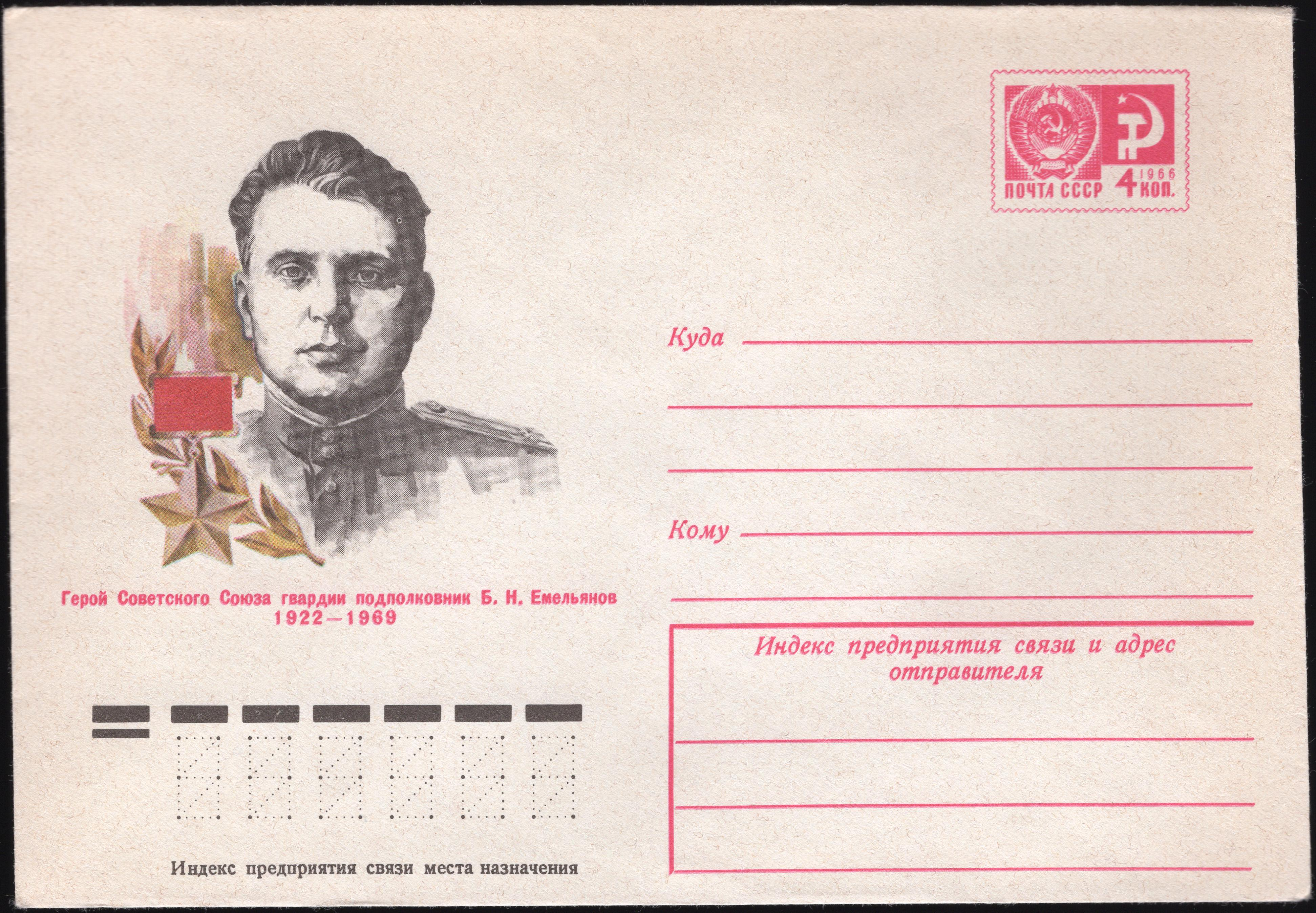 Hero of the Soviet Union Guards Lieutenant Colonel Boris Yemelyanov. 1922-1969. Series: Heroes of the Soviet Union. Artist Ketsba A.